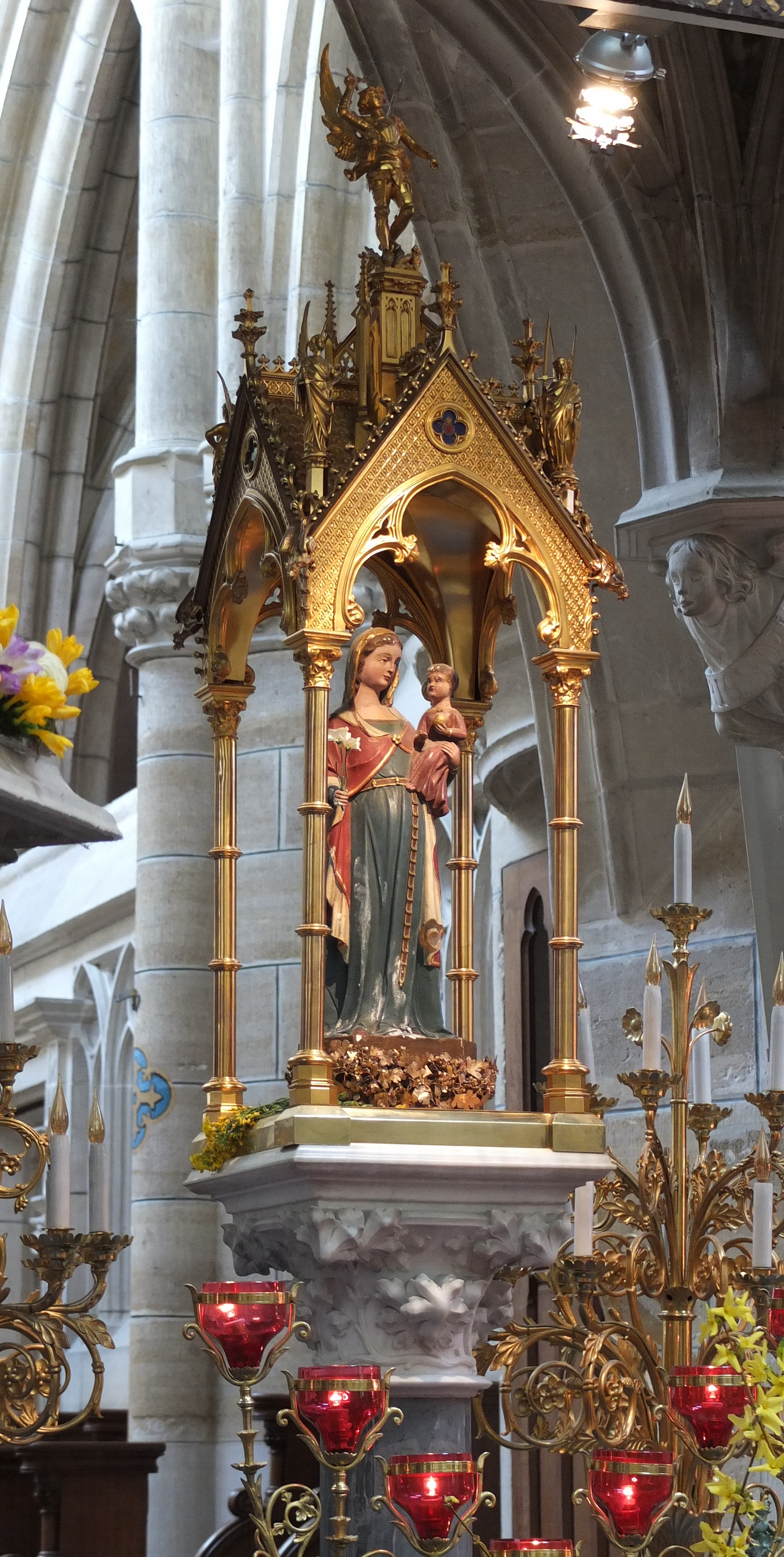 Madonna and Child (14th ctry.) in Basilique Notre-Dame de L'Épine, France.